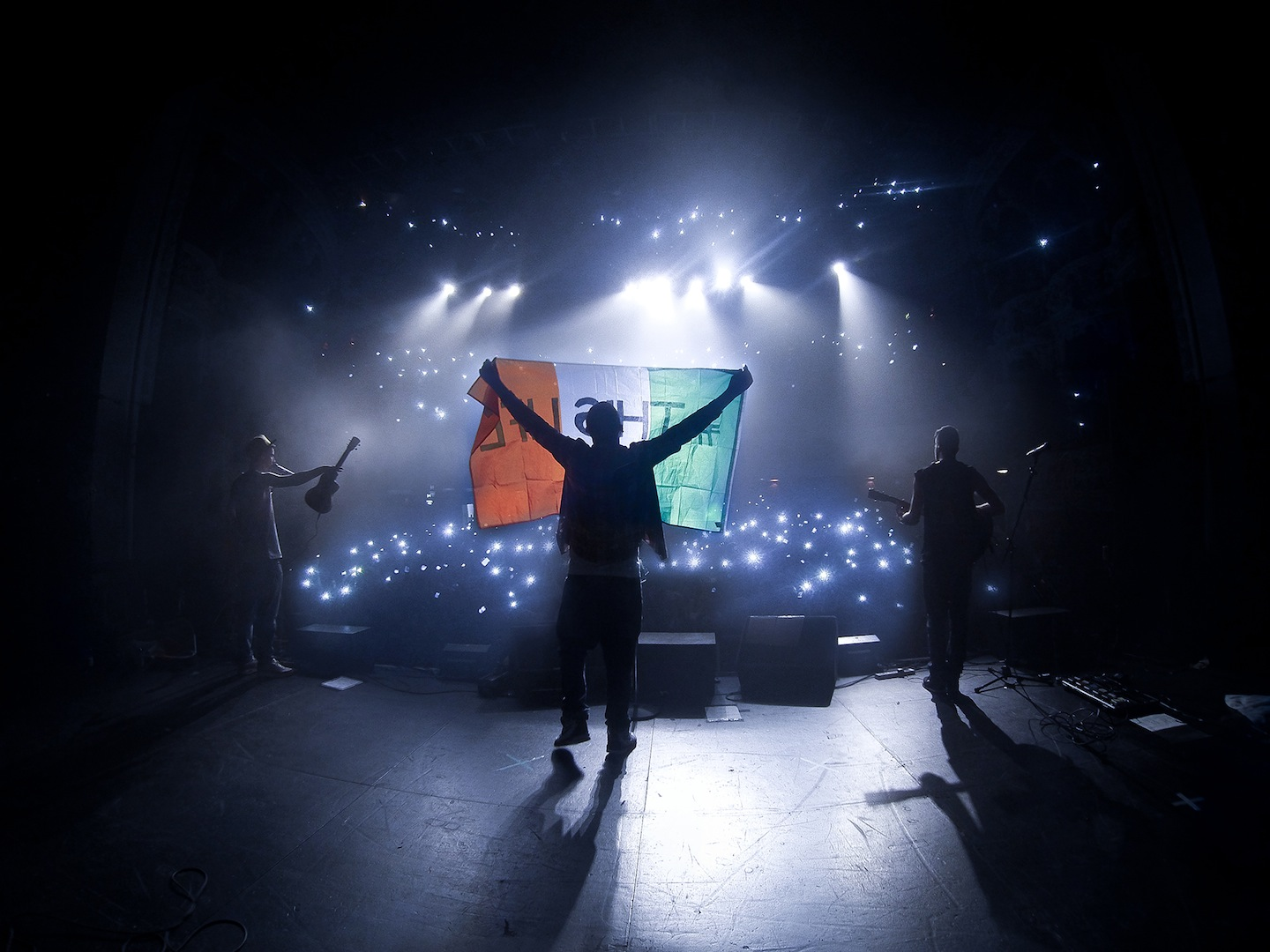 The Original Rudeboys live at the Olympia, Dublin.